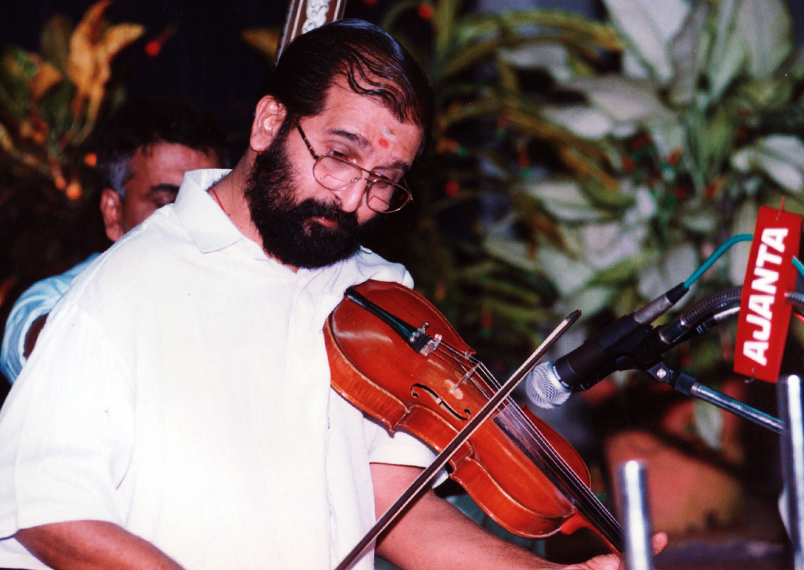 B. Sasikumar, during a conecrt